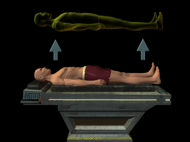 The astral leaves the body during sleep.